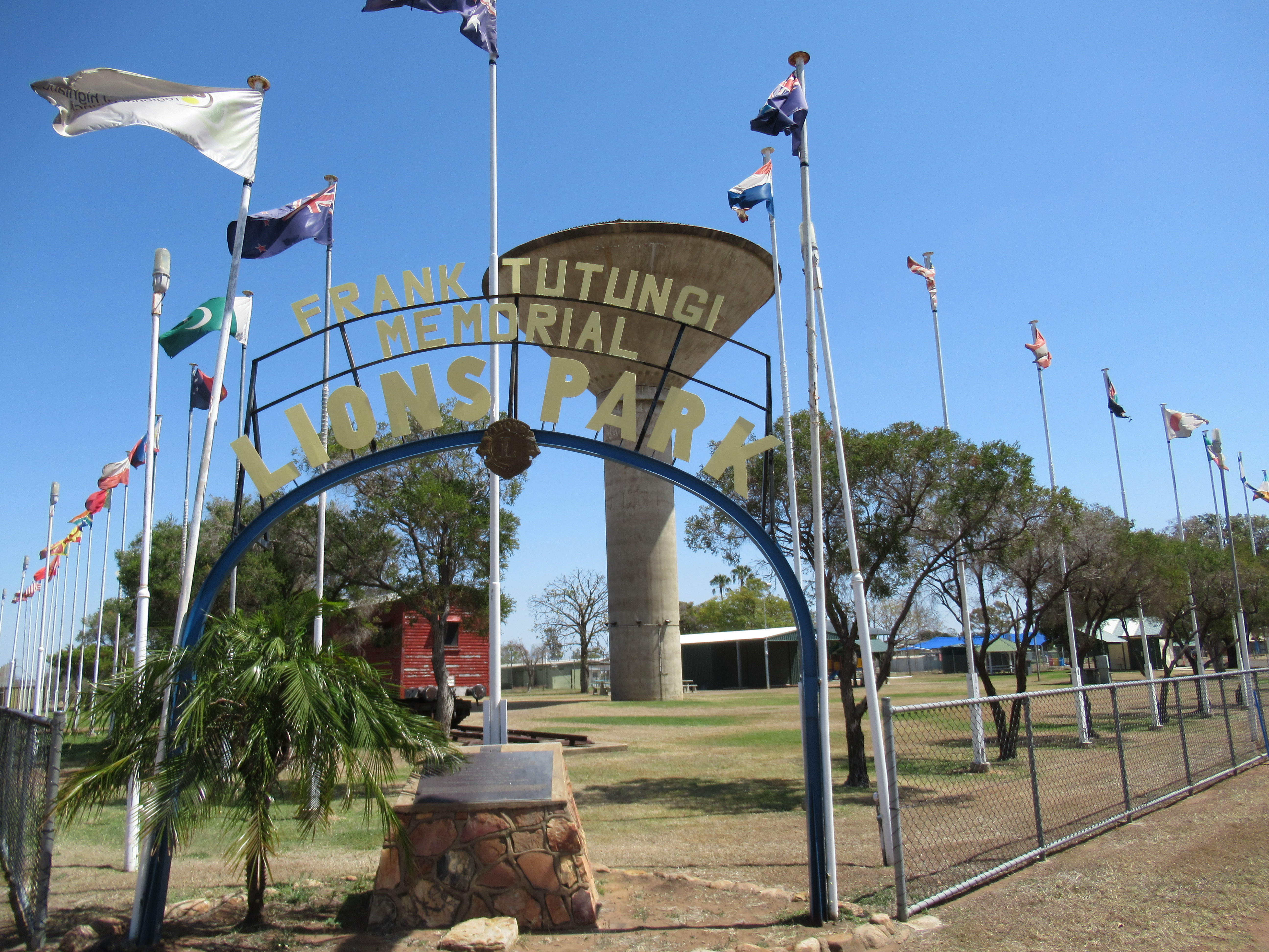 Plaque states: "Lions Club of Blackwater. These flags were erected as a visual tribute to all those people of different nationalities who combined their efforts to mould Blackwater into a thriving township. The unfurling ceremony was carried out by Honourable R.C. Katter M.P. (Federal Member for Kennedy) on the 12th day of June 1976